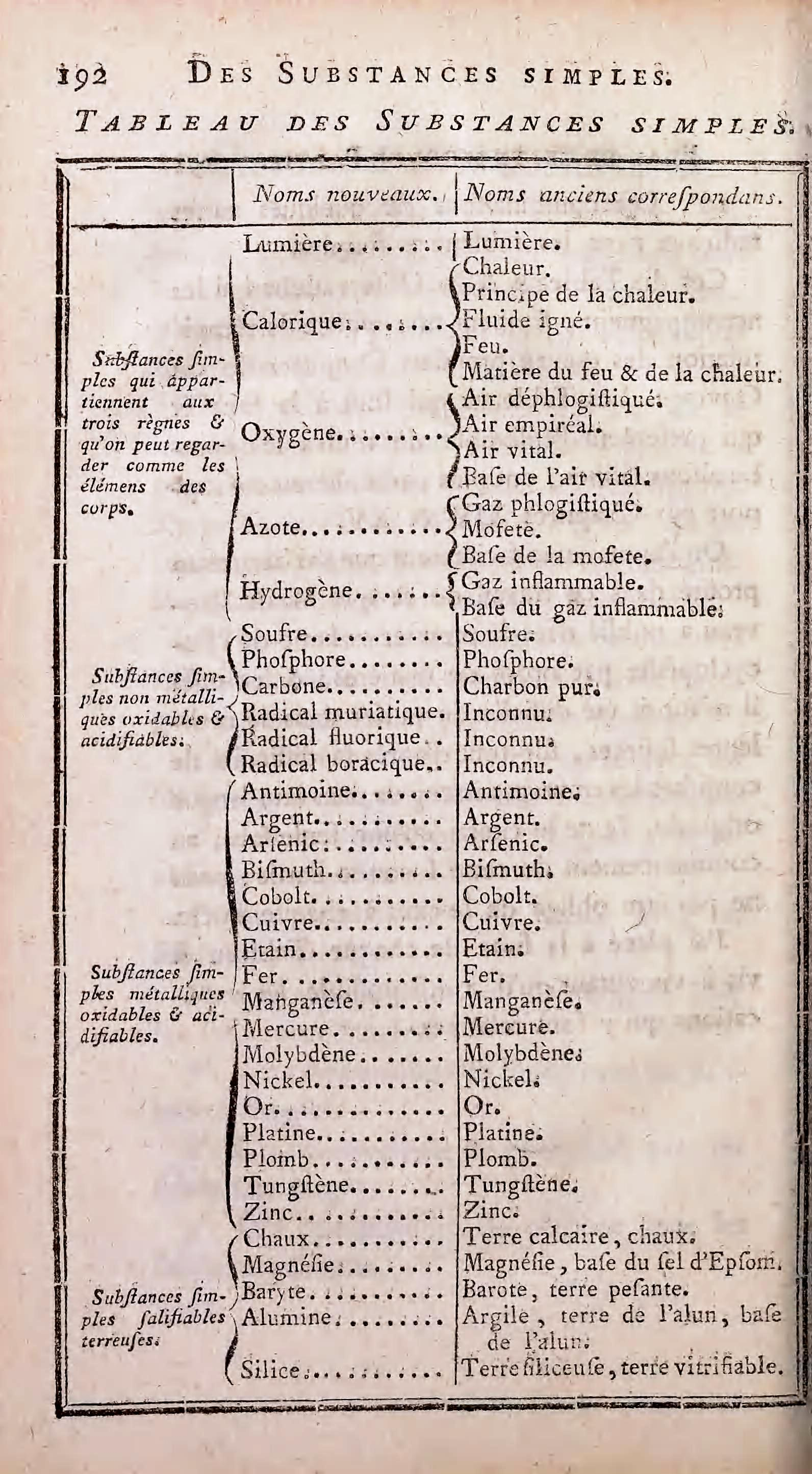 A table of 'simple substances' produced by Lavoisier in 1789